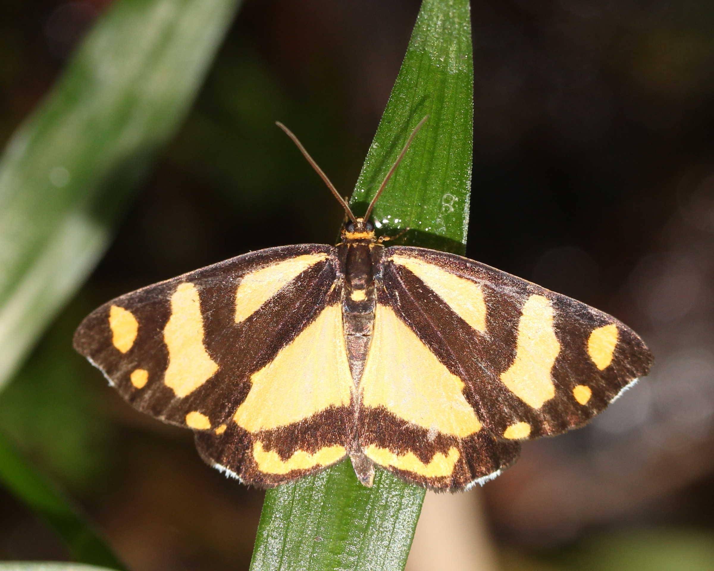 Psychostrophia melanargia Butler, 1877 on leaf in Japan.